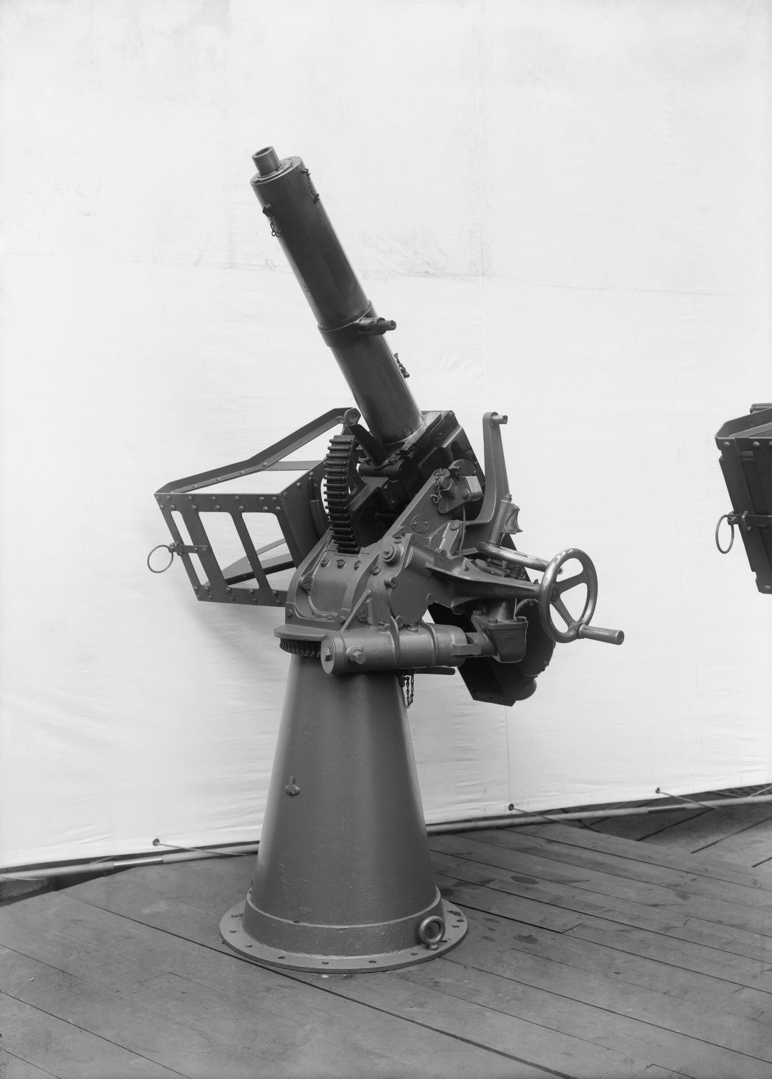 Collections of the Imperial War Museum Anti-aircraft gun mounted in Gresham College which fired the first round in the defence of London during the Zeppelin Raid on 8th September 1915.